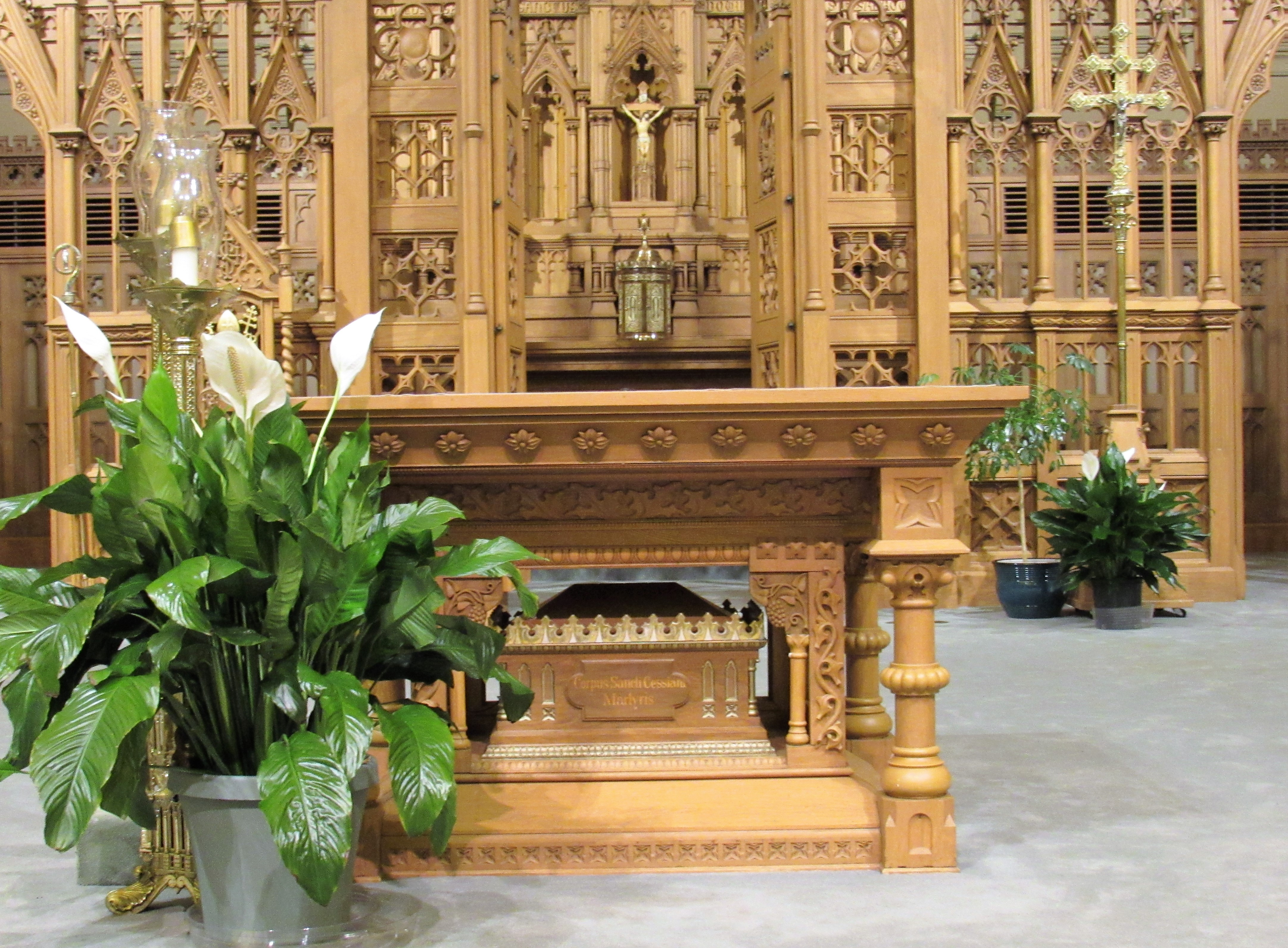 The altar in St. Raphael's Cathedral in Dubuque, Iowa.